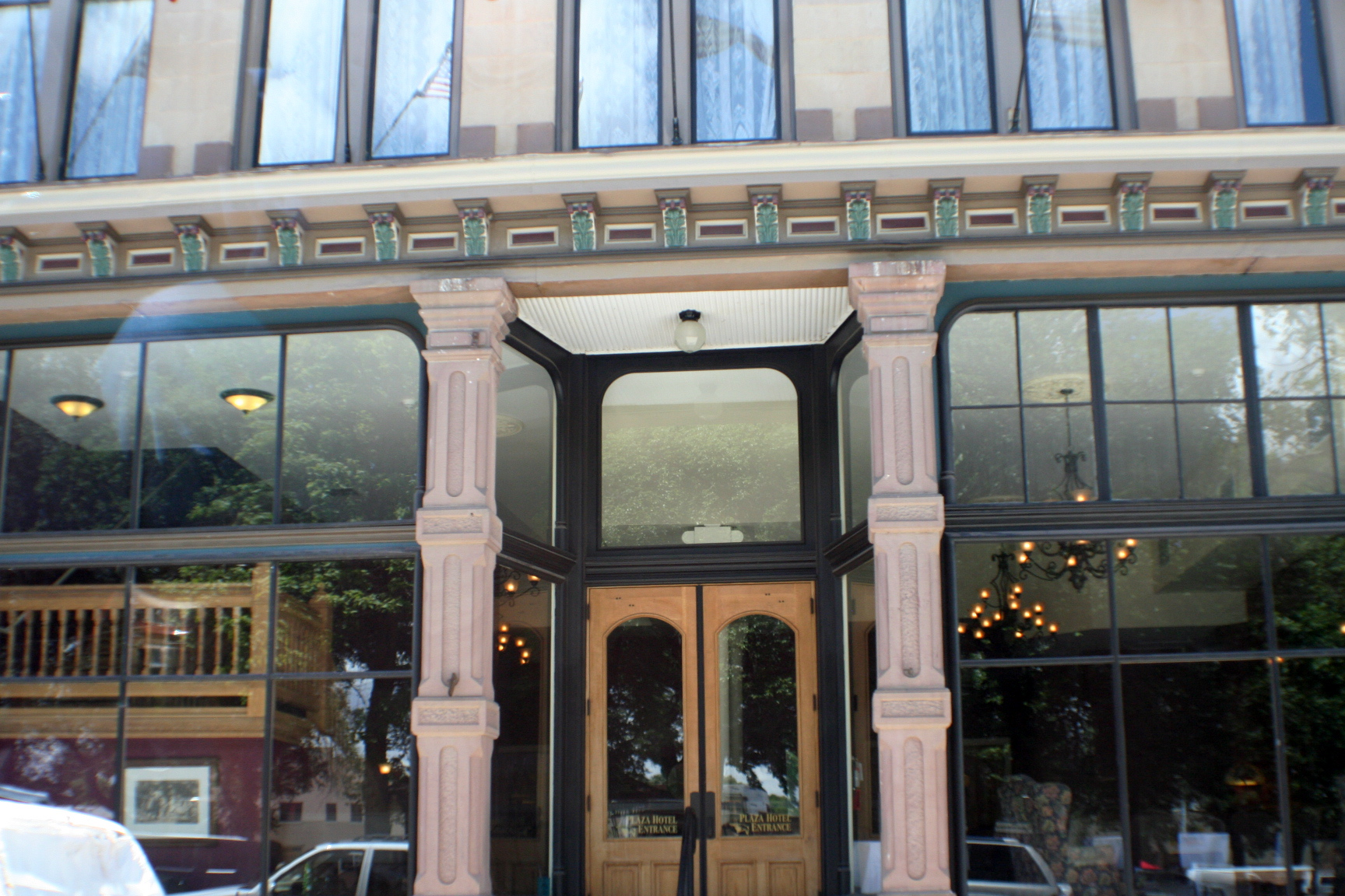 Entrance to the Plaza Hotel in Las Vegas, New Mexico